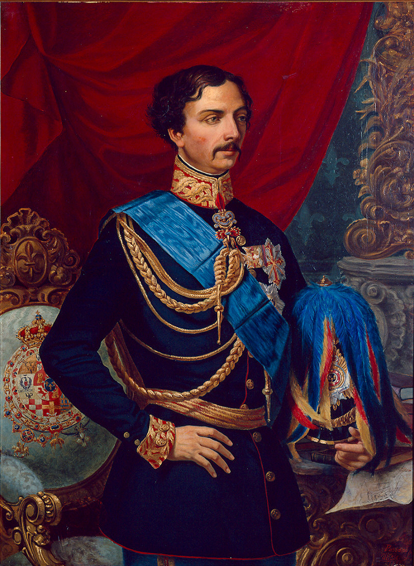 Portrait of Charles III, Duke of Parma (1823-1854)